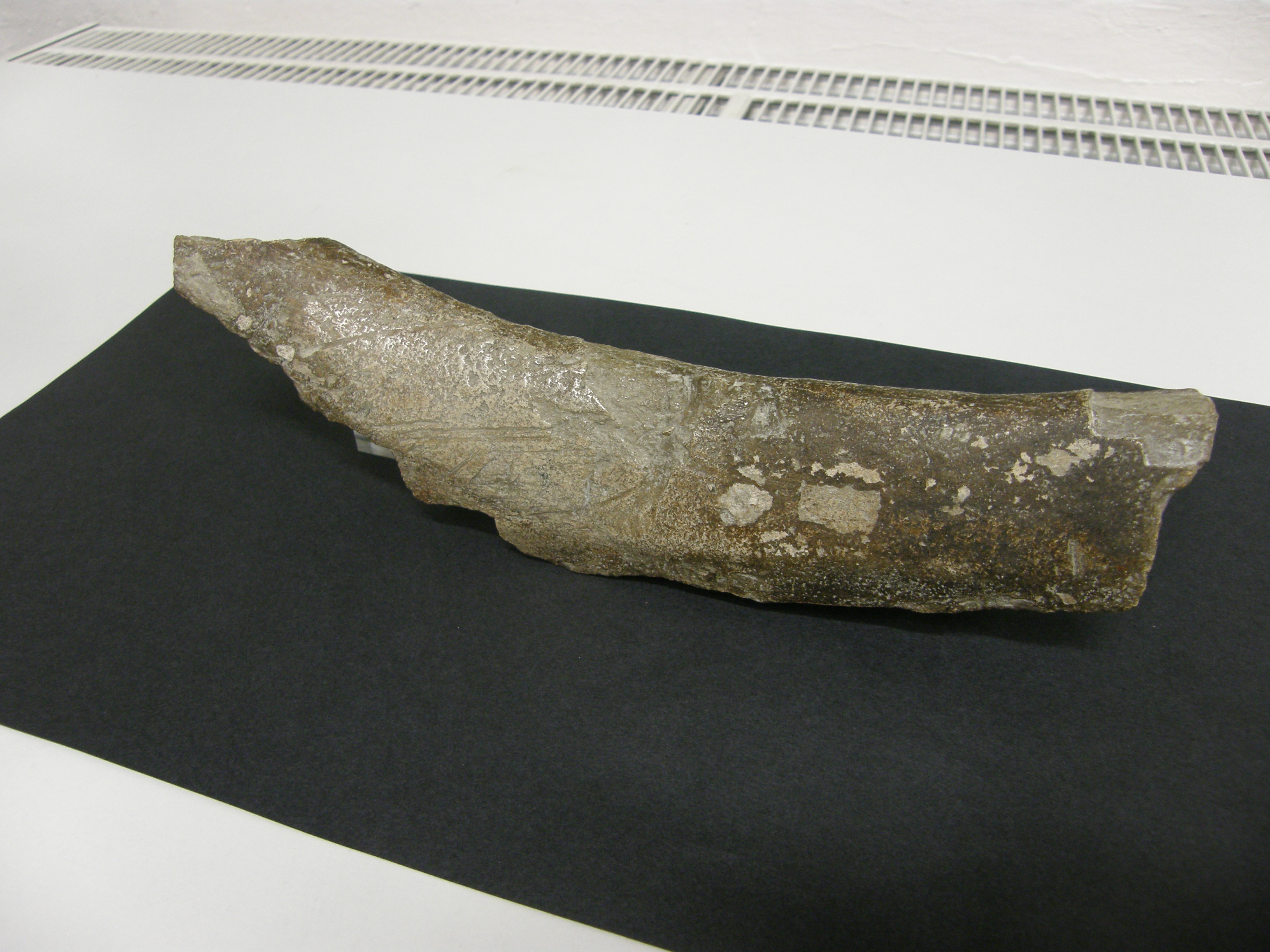 Engraving of the fish on the mammoth´s rib from Holedeč